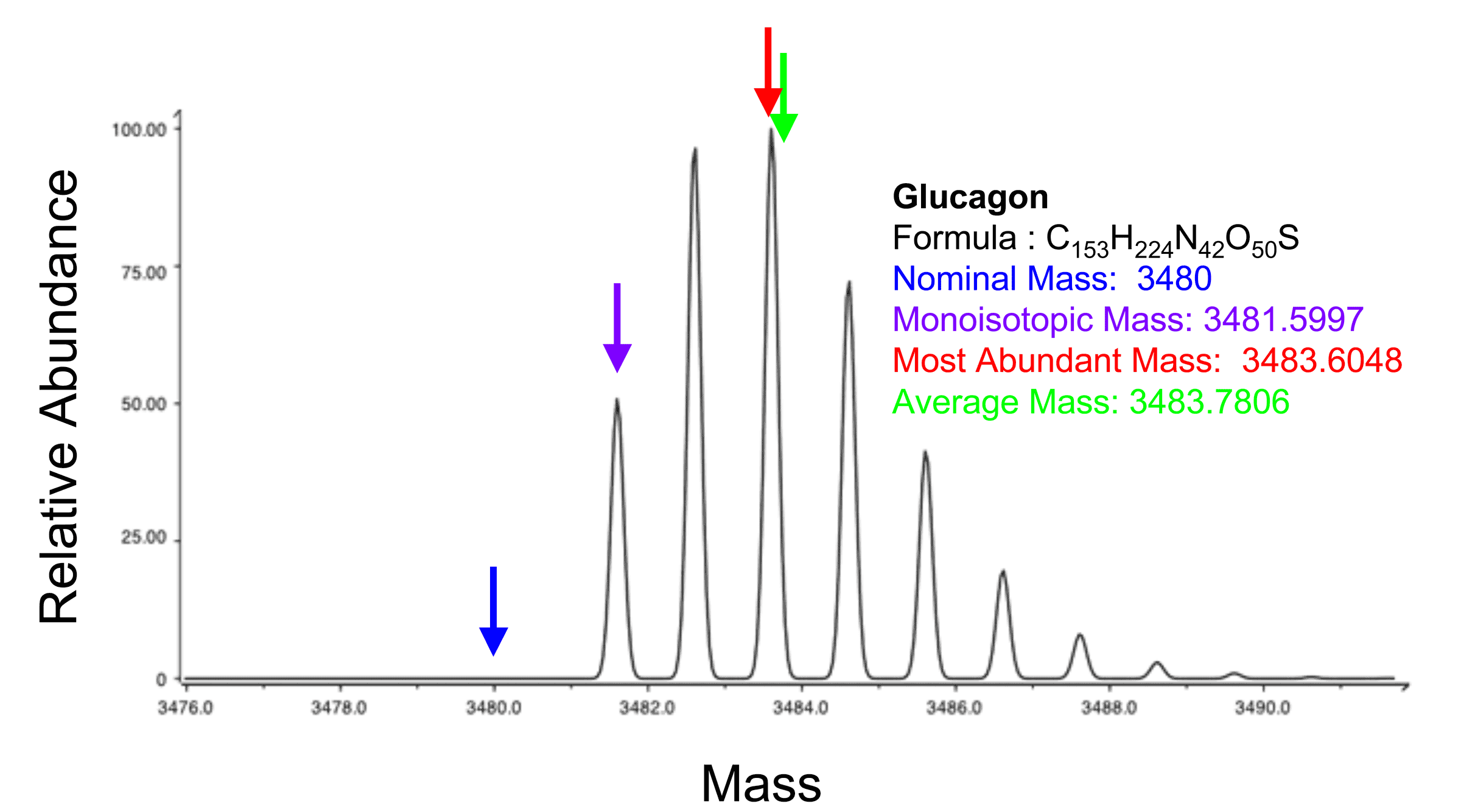 Theoretical molecular ion distribution of the polypeptide glucagon